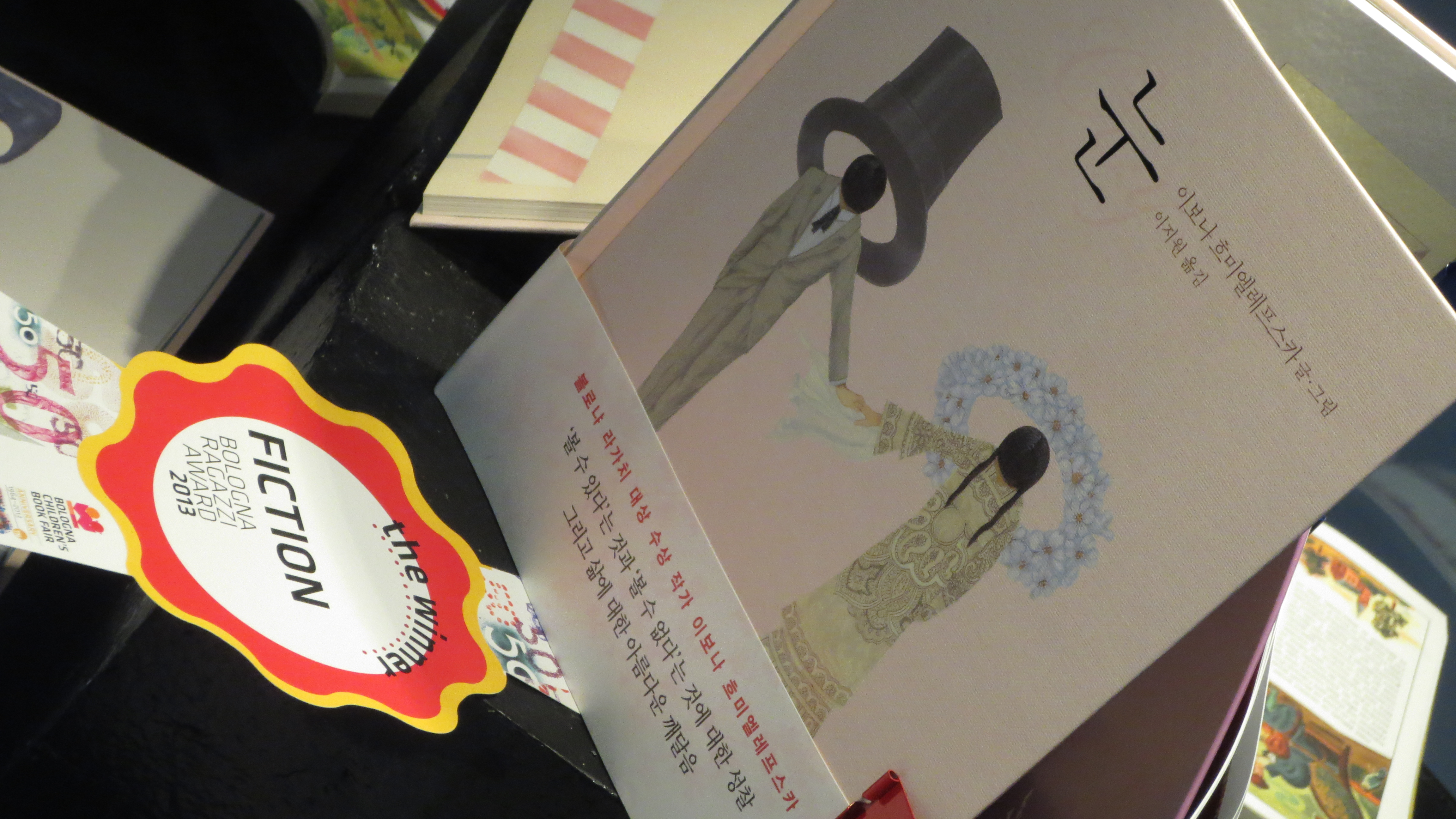 27th March 2013 - Exhibited copy of Iwona Chmielewskas picture book »눈« (»Eyes«), winner of the Bologna Ragazzi Award (Fiction) 2013, at the 50th Bologna Children´s Book Fair